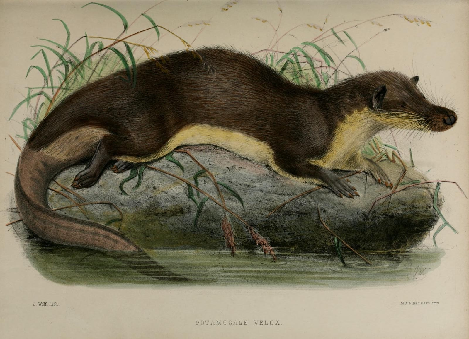 Accepted: Potamogale velox Common: Giant Otter Shrew